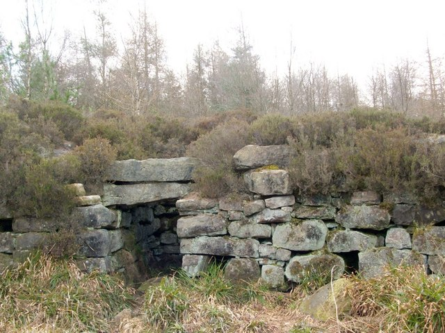 Tappoch Broch - southern side. The main features of this broch are summarized in a note at the end of this article. For links to other images of the broch, see the main description: 1024921. The present photo was taken from within the central courtyard of the broch, and shows the inner wall on the southern side. The opening that can be seen here is not the main entrance, but leads, instead, to a stone stairway built within the structure of the walls. It is possible (by crouching down) to pass under the double lintel of the opening; the passage then turns sharply to the right (i.e., to the west), to follow the space between the outer and inner walls; it is within this space that the stone stairway is located. The steps are shown at 436930, where their purpose is also explained. I measured these steps to be, on average, about 12cm high, and 18cm deep, in a passage that is 0.7-0.8m wide. In what remains of the broch at present, the steps simply lead up to the wall-head (specifically, they lead to the part of the wall-head that appears at the right-hand edge of the photo).